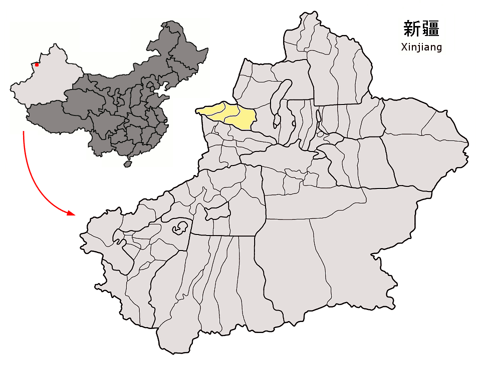 Location of Börtala Prefecture (yellow) within Xinjiang autonomous region of China Map drawn in september 2007 using various sources, mainly : Xinjiang Uygur autonomous region administrative regions GIS data: 1:1M, County level, 1990 Xinjiang Counties map from